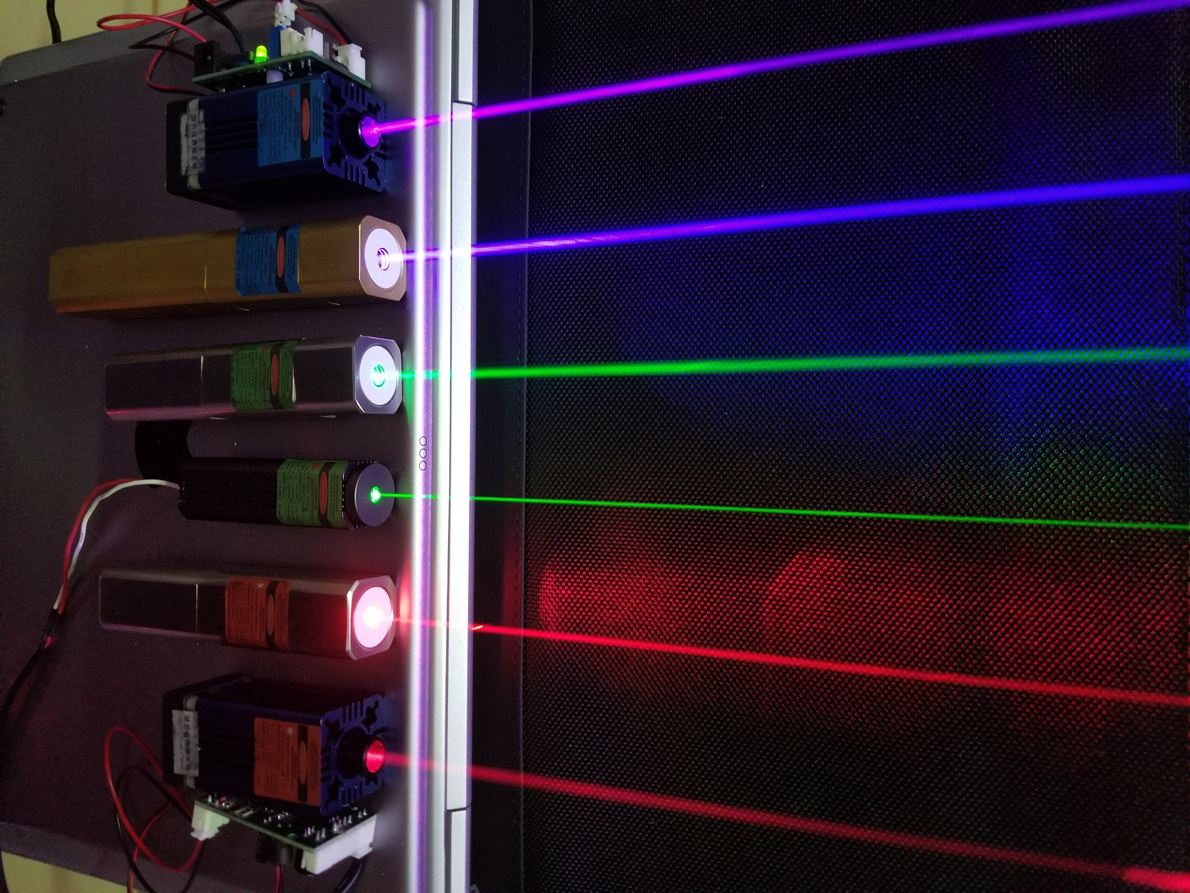 Q-Line Lasers Red lasers: 635nm, 660nm Green lasers: 520nm, 532nm Blue lasers: 405nm, 445nm